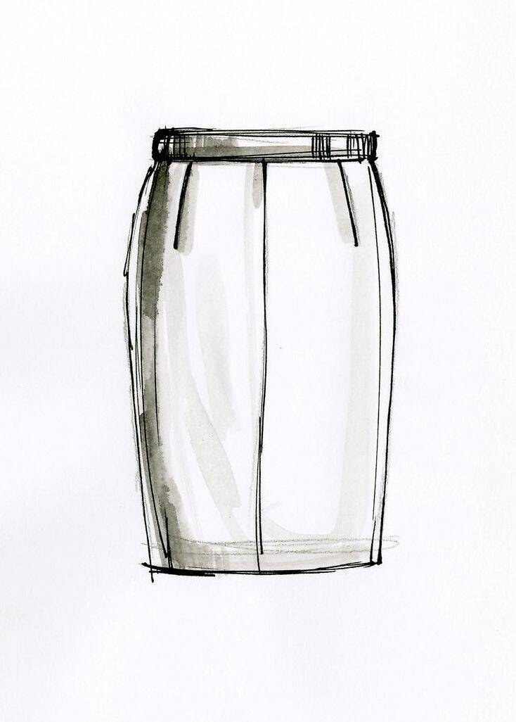 The description of the concept in this drawing is: Main garments of varying length extending from the waist or hip and covering a part of the lower body. Also, the lower part of a dress, coat, or other garment. (AAT)